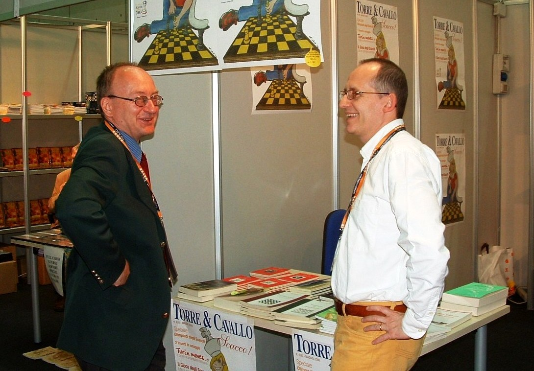 Photo of GM Adrian Mikhalchisin and IM Roberto Messa at Turin 2006 Olympiad.